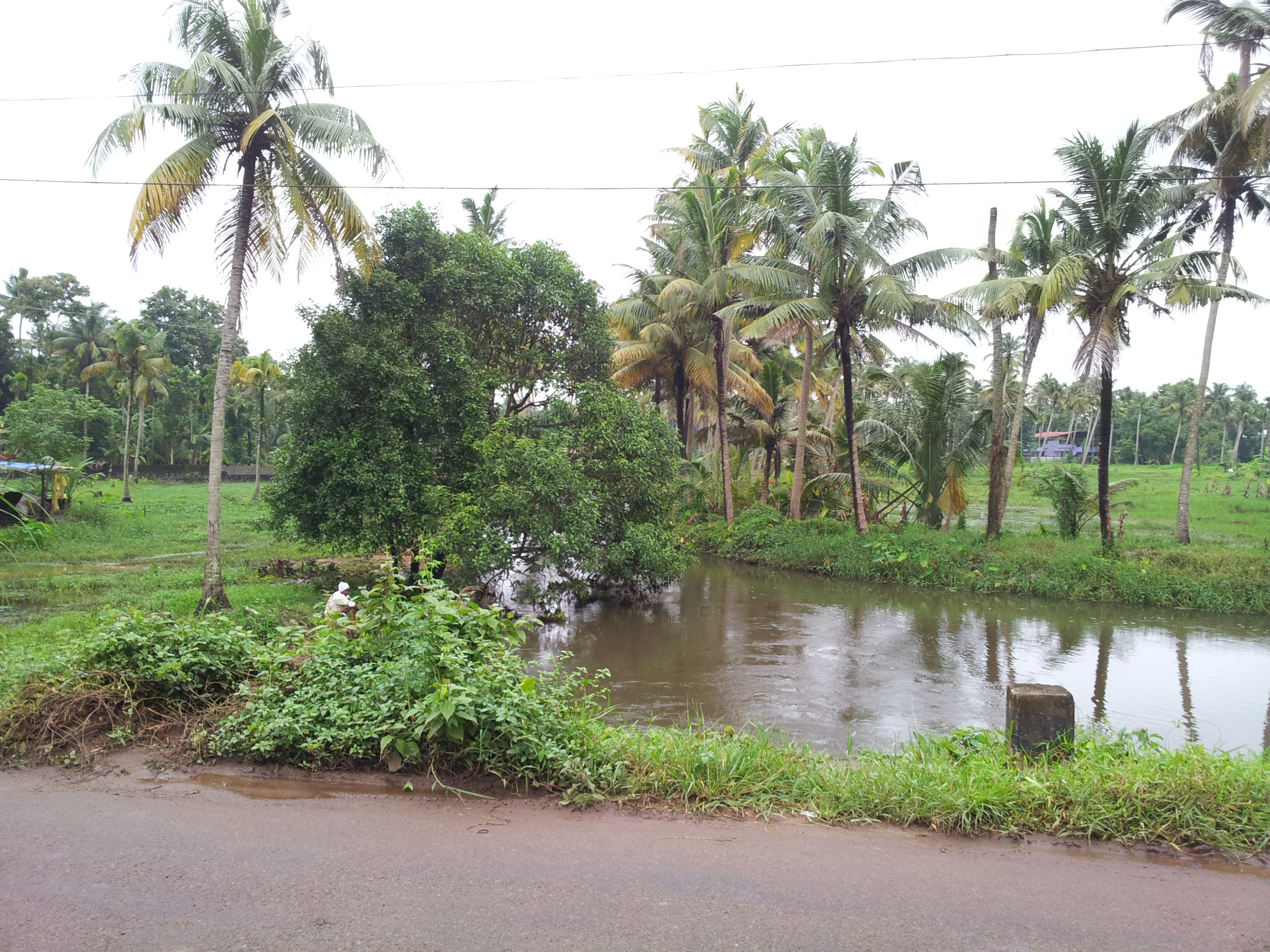 The small river from Eravathur